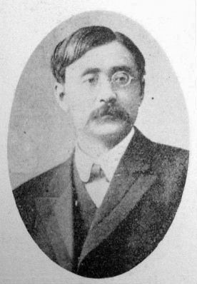 a Japanese man 新渡戸稲造 (Inazo Nitobe)